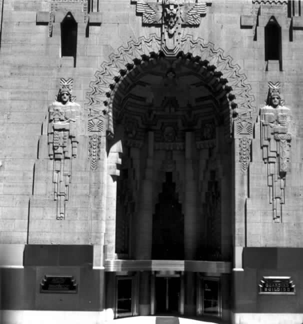 Entrance portal to the Guardian Building in Downtown Detroit, Michigan. The Art Deco bas-reliefs flanking the door were sculpted by Corrado Parducci.